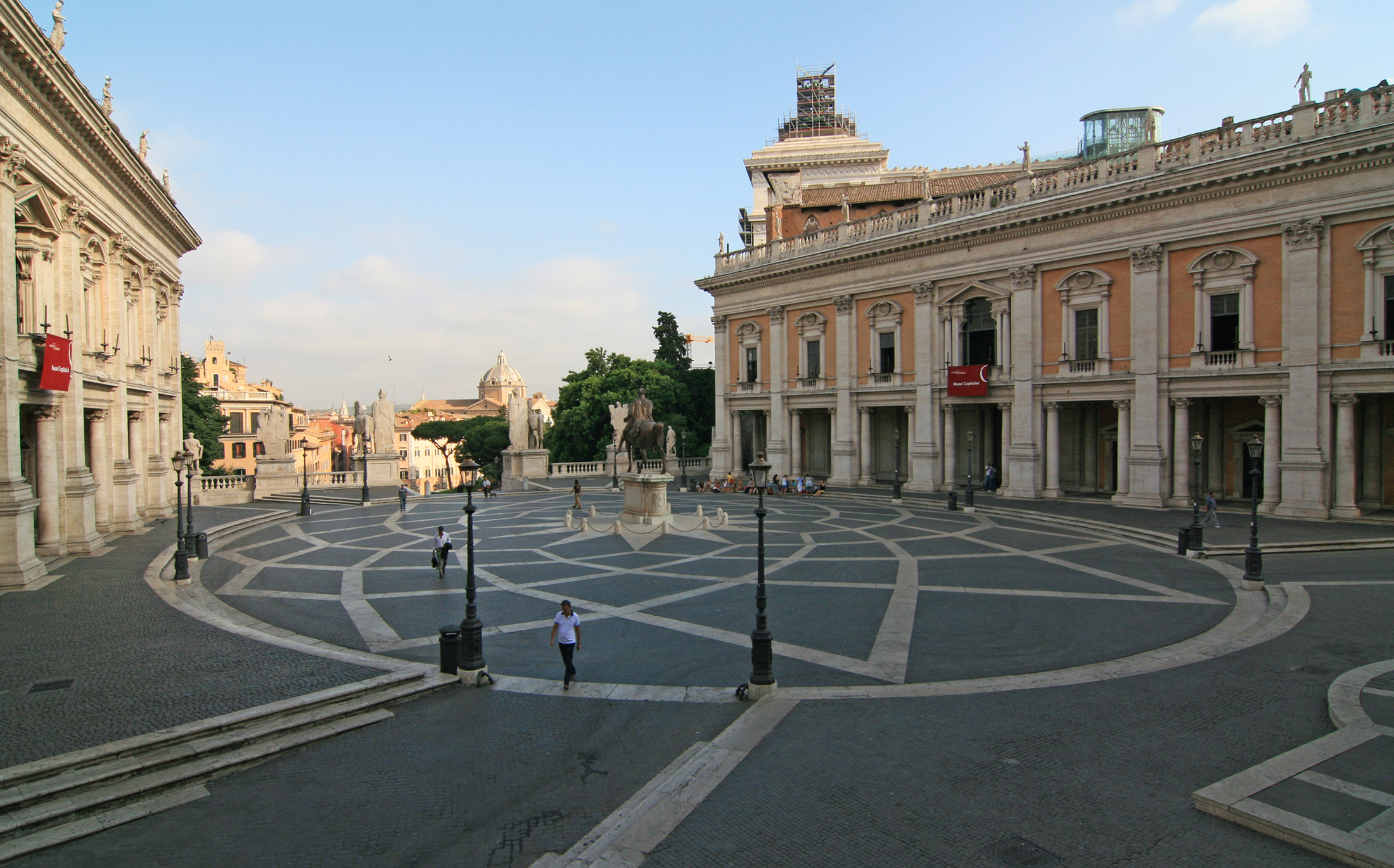 Piazza del Campidoglio, Rome.